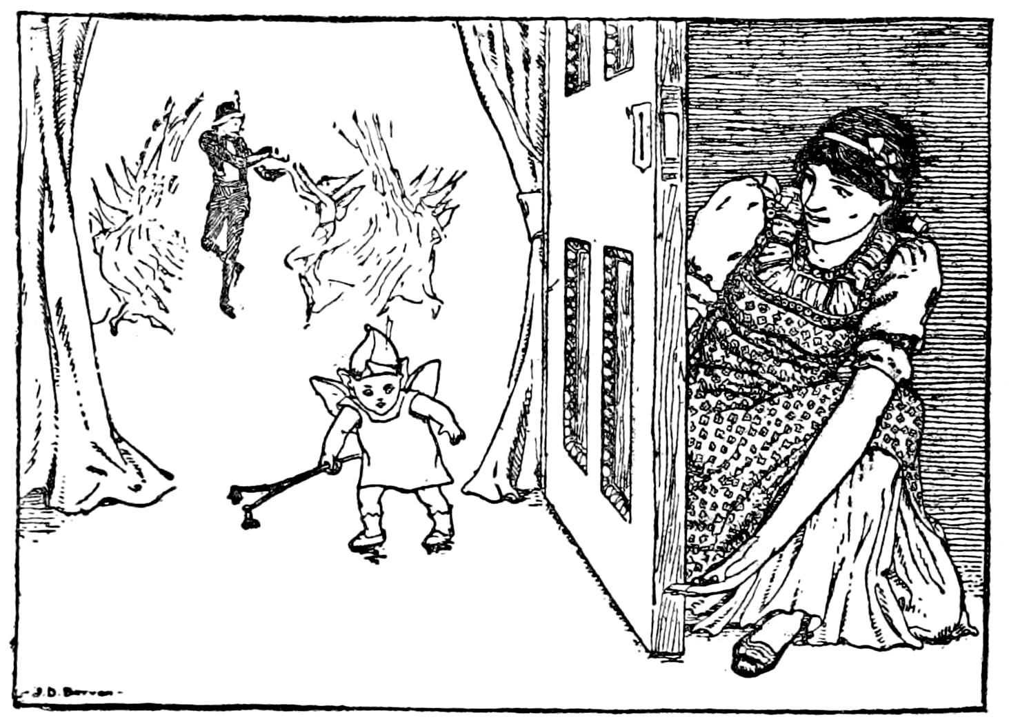 illustration from a book of fairy tales